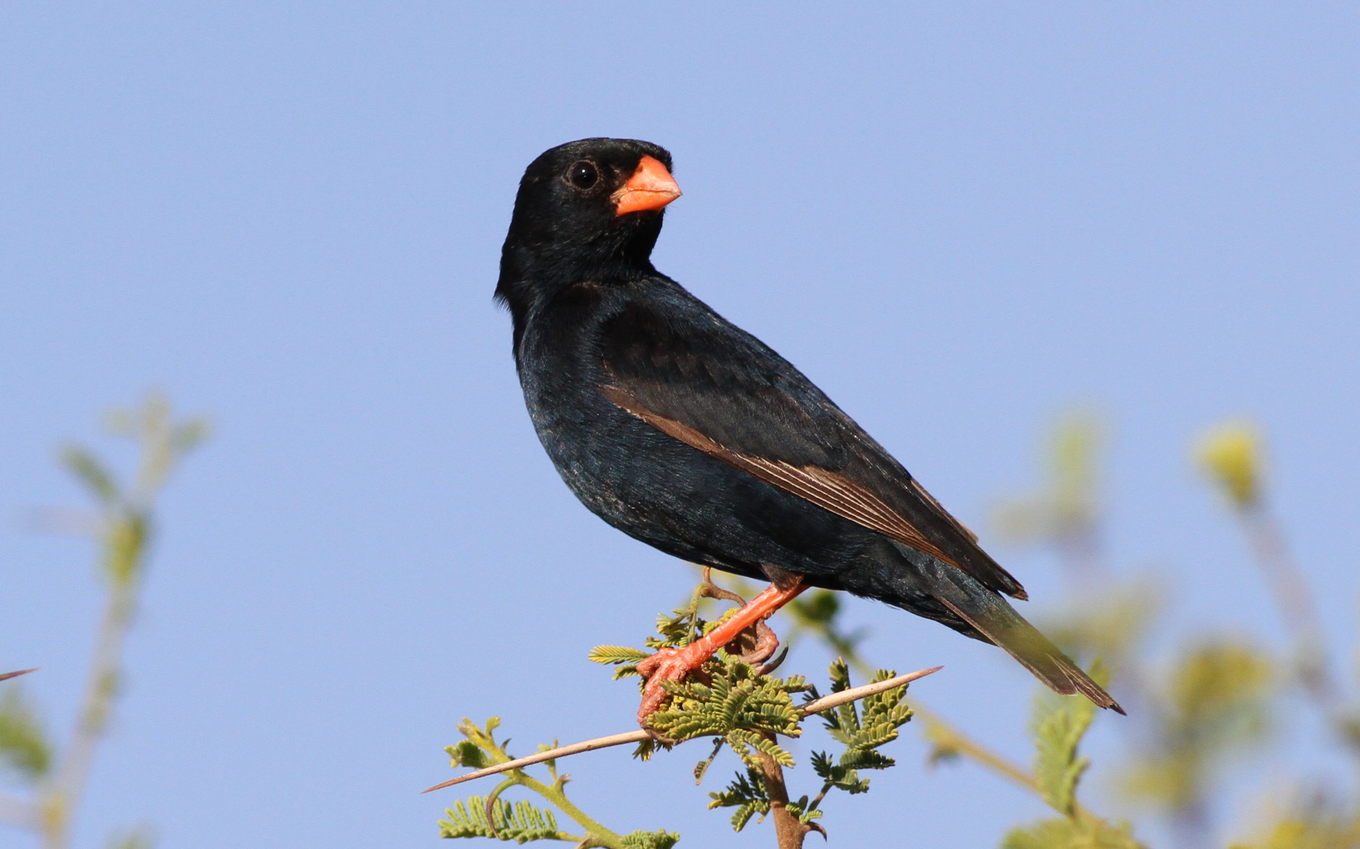 Village indigobird, Vidua chalybeata, at Mapungubwe National Park, Limpopo, South Africa (male)